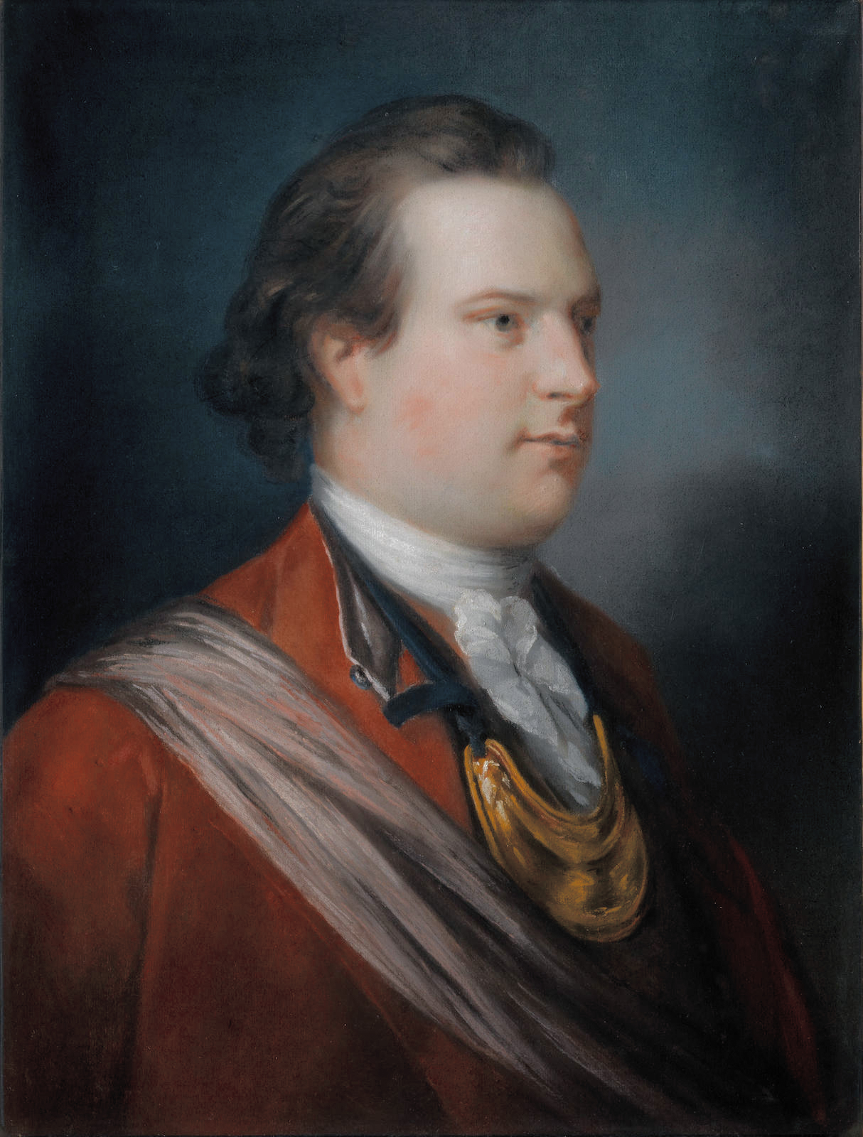 George Keppel, 3rd Earl of Albemarle